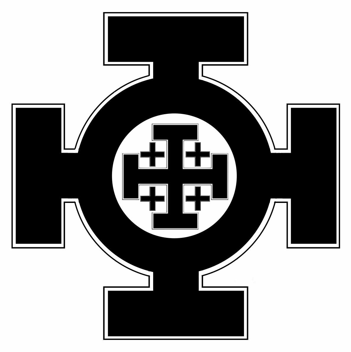 Badge of a Knight of the Holy Sepulchre (Masonic Order).